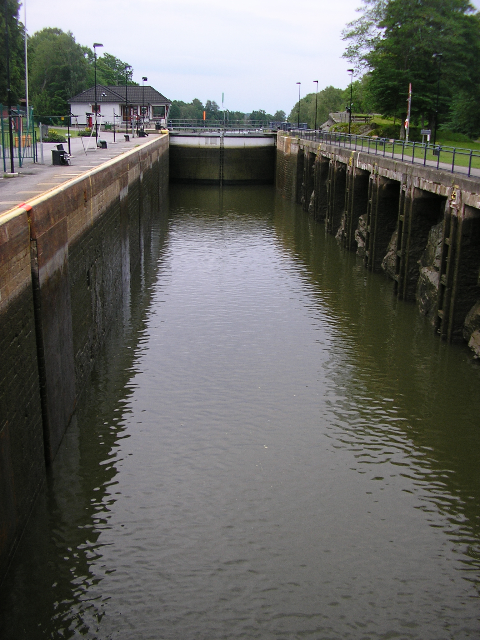 The sluice, Brinkebergskulle.